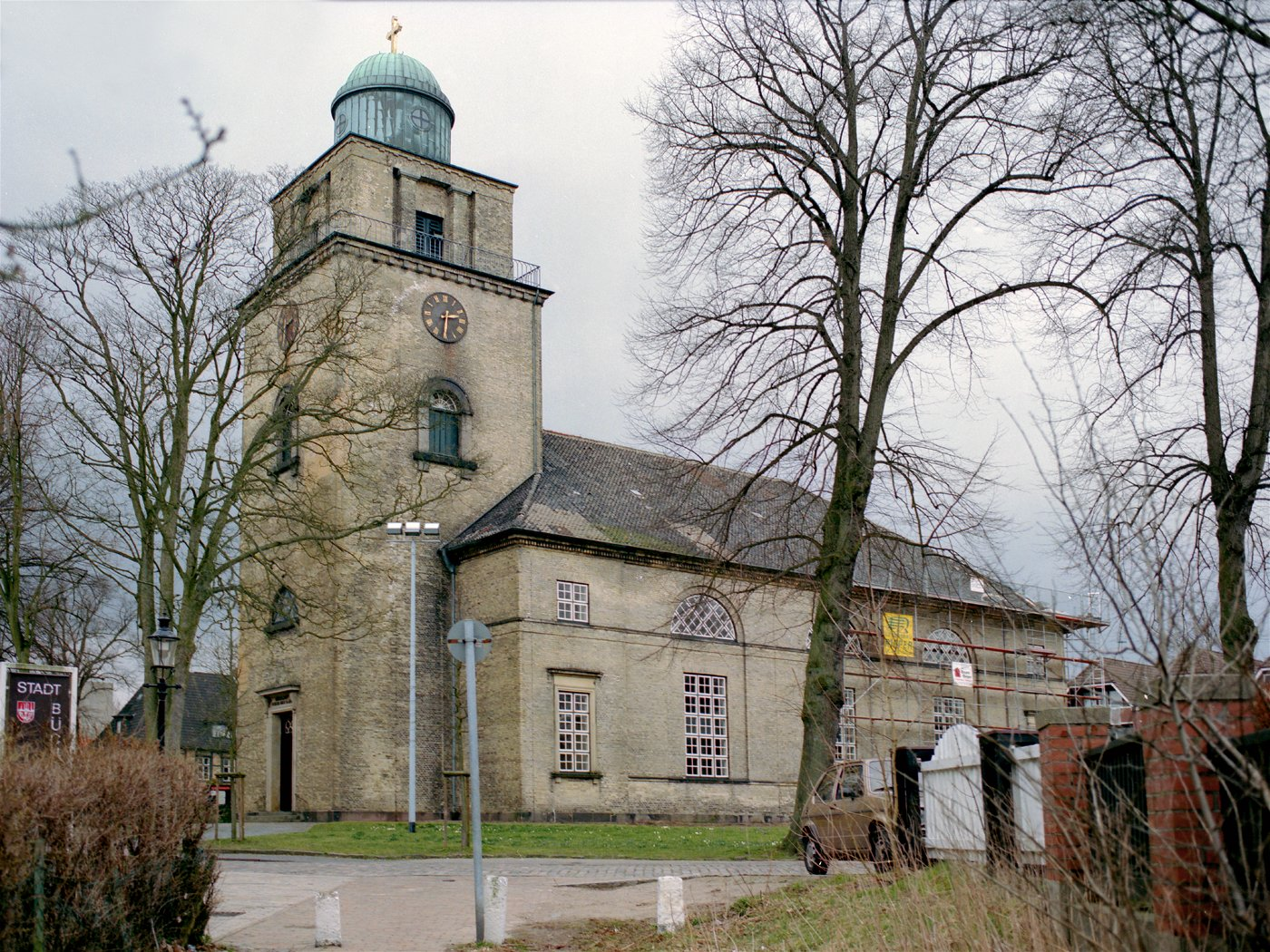 Vicelin-church of Neumünster, Schleswig-Holstein, Germany